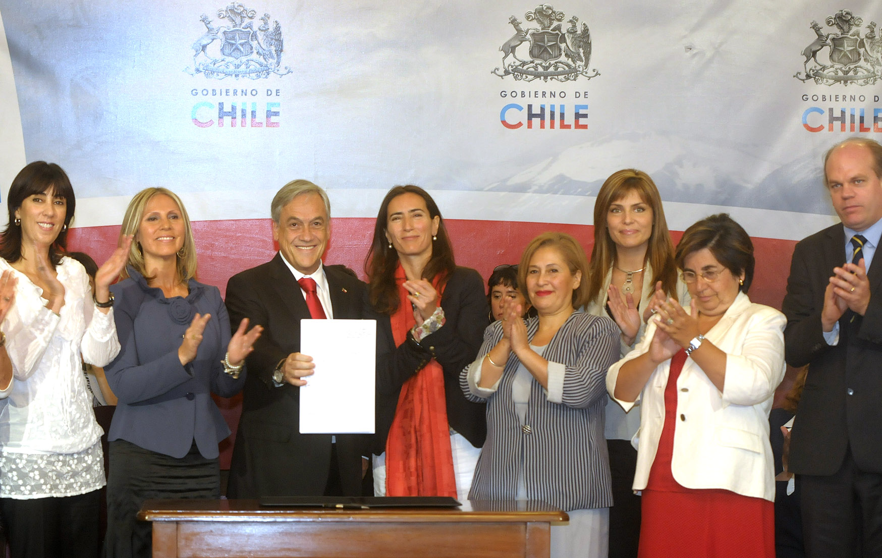 13.12.2010 Passing of Law against femicide in Chile.